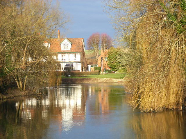 Backwater of the Thames at Sonning. The picture is taken from the footbridge opposite Sonning Mill, looking northwest towards the French Horn (hotel and restaurant). This is on the Oxfordshire side of the river which forms the traditional boundary with Berkshire. The 1970's reorganisation replaced the natural boundary to the west, giving much of West Berkshire to Oxfordshire and moving the Caversham area of Reading from Oxon to Berks. Nowadays Berkshire no longer exists in an official capacity, having been replaced by six unitary authorities.